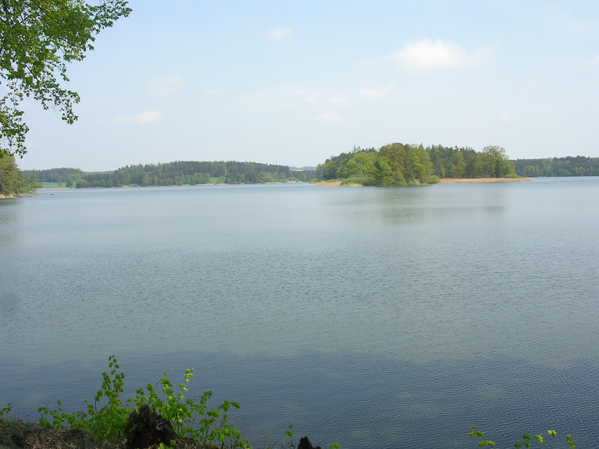 Velká Holná Pond, Ratiboř, South Bohemian Region, the Czech Republic.